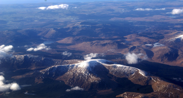 Mullwharchar The peak with the snow in the foreground is Mullwharchar. Viewed from a Stansted bound Boeing 737 shortly after take-off from Prestwick.